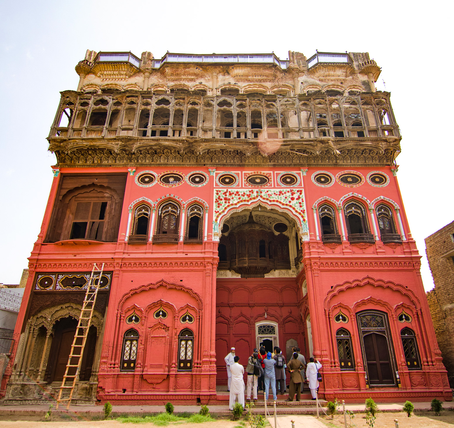 Omar Hayat Mahal (Gulzar Manzil) This is a photo of a monument in Pakistan identified as the PB-P-2